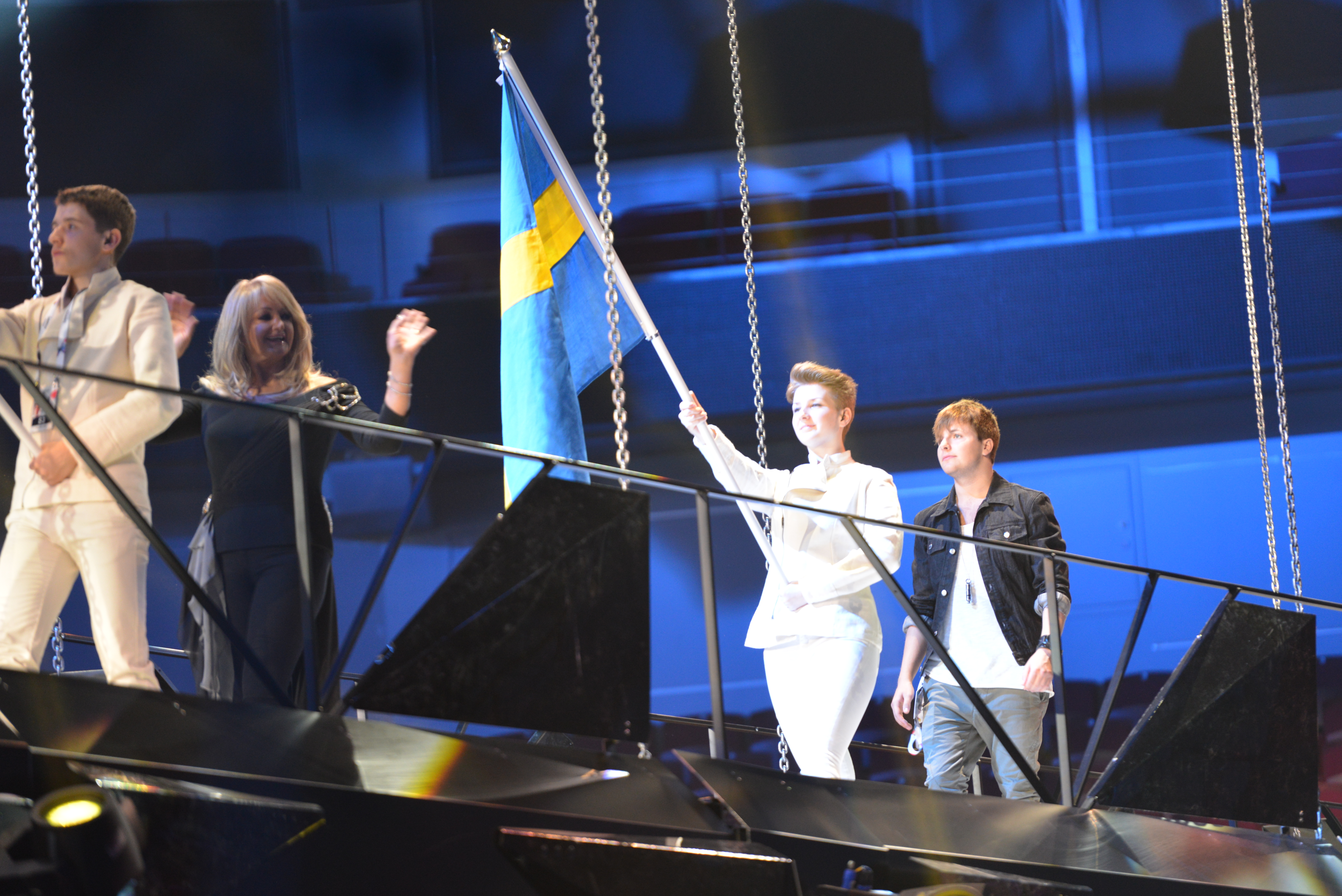 Bonnie Tyler and Robin Stjernberg entering the Malmö Arena in the opening act in the first dress rehearsal for the Eurovision Song Contest 2013.